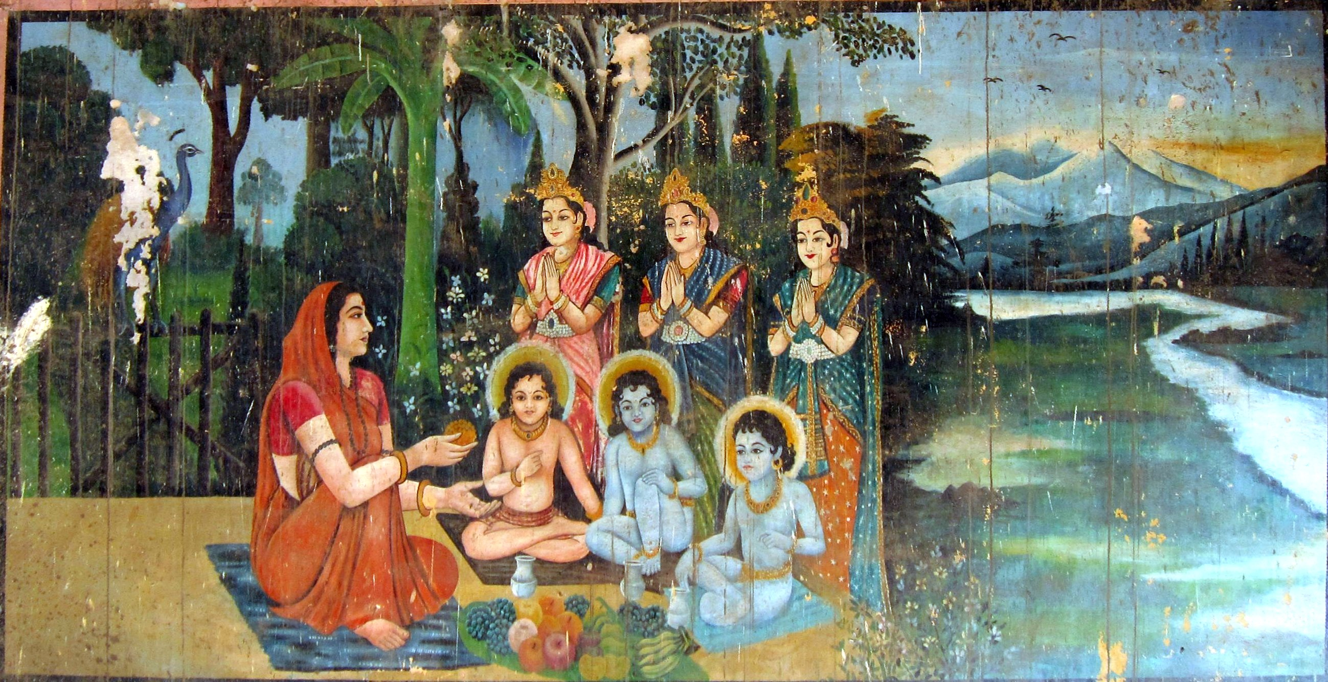 Anasuya Feeding the Hindu Trinity, anonymous painting on the wall of the Krishna-Sudama Temple of Porbandar, India, c. 1907